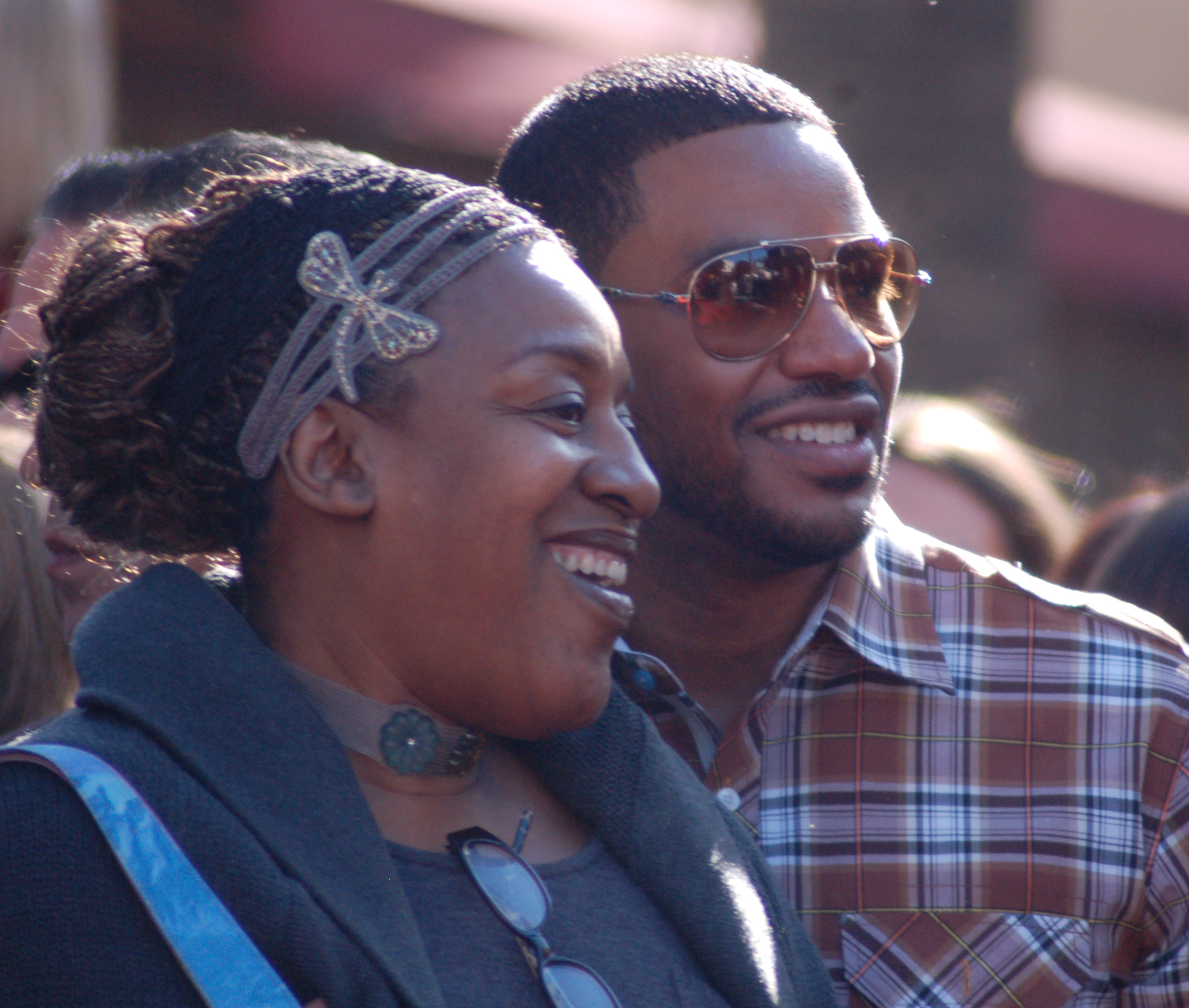 C. C. H. Pounder and Laz Alonso at a ceremony for James Cameron to receive a star on the Hollywood Walk of Fame.